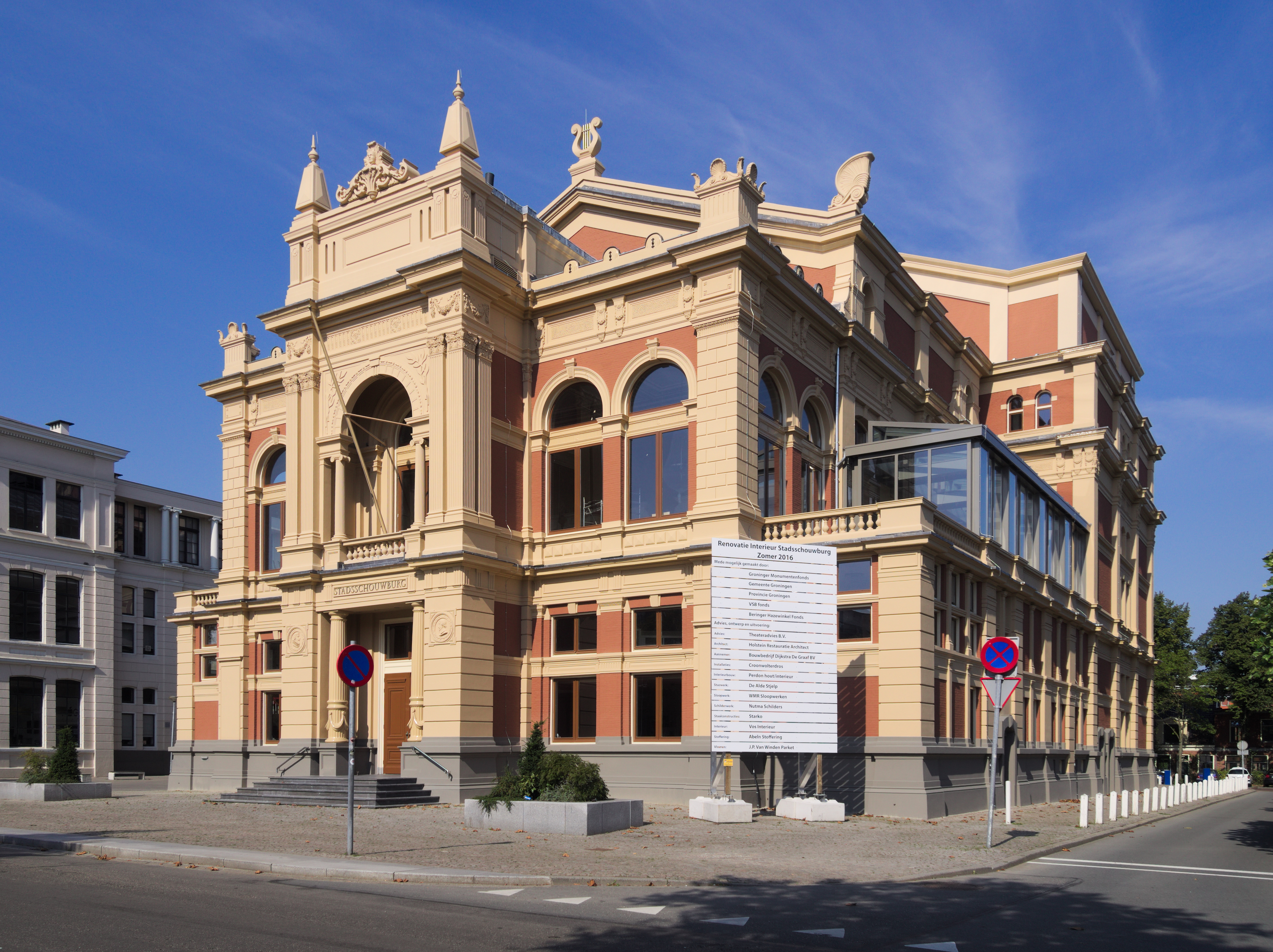 The city theatre (Stadsschouwburg) of Groningen.